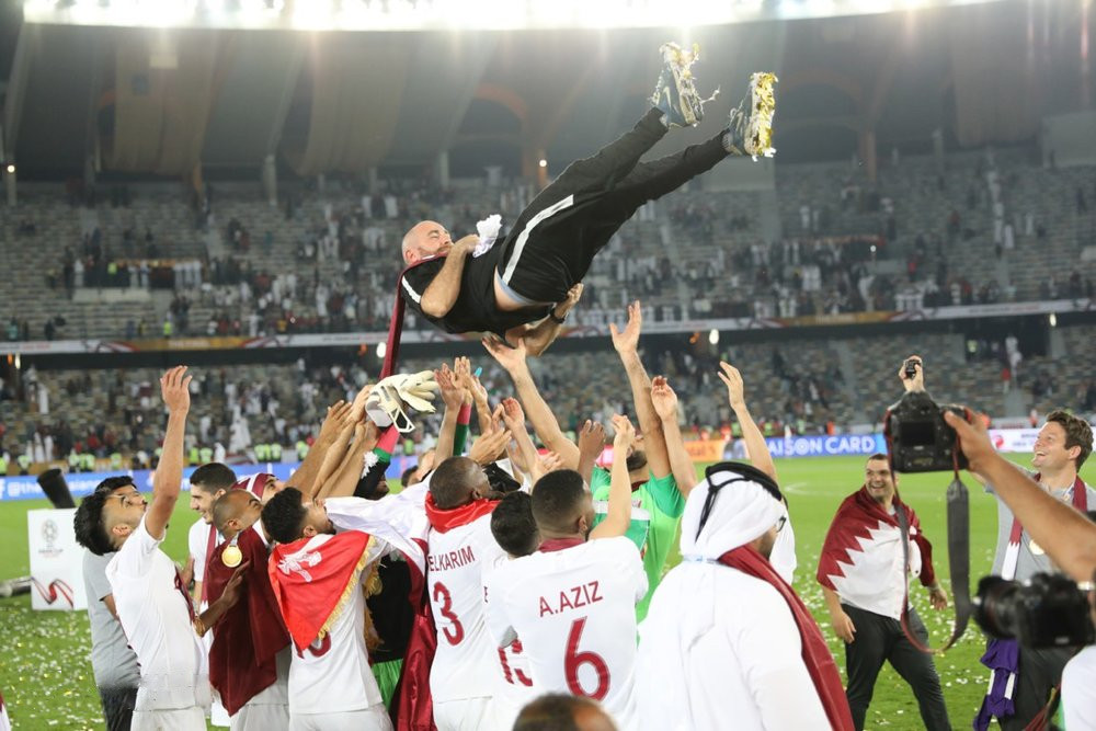 2019 AFC Asian Cup Final